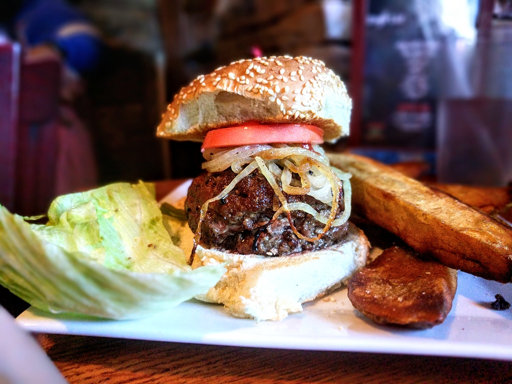 American hamburger, Cambridge MA